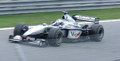 David Coulthard driving for McLaren at the 2000 Canadian Grand Prix.